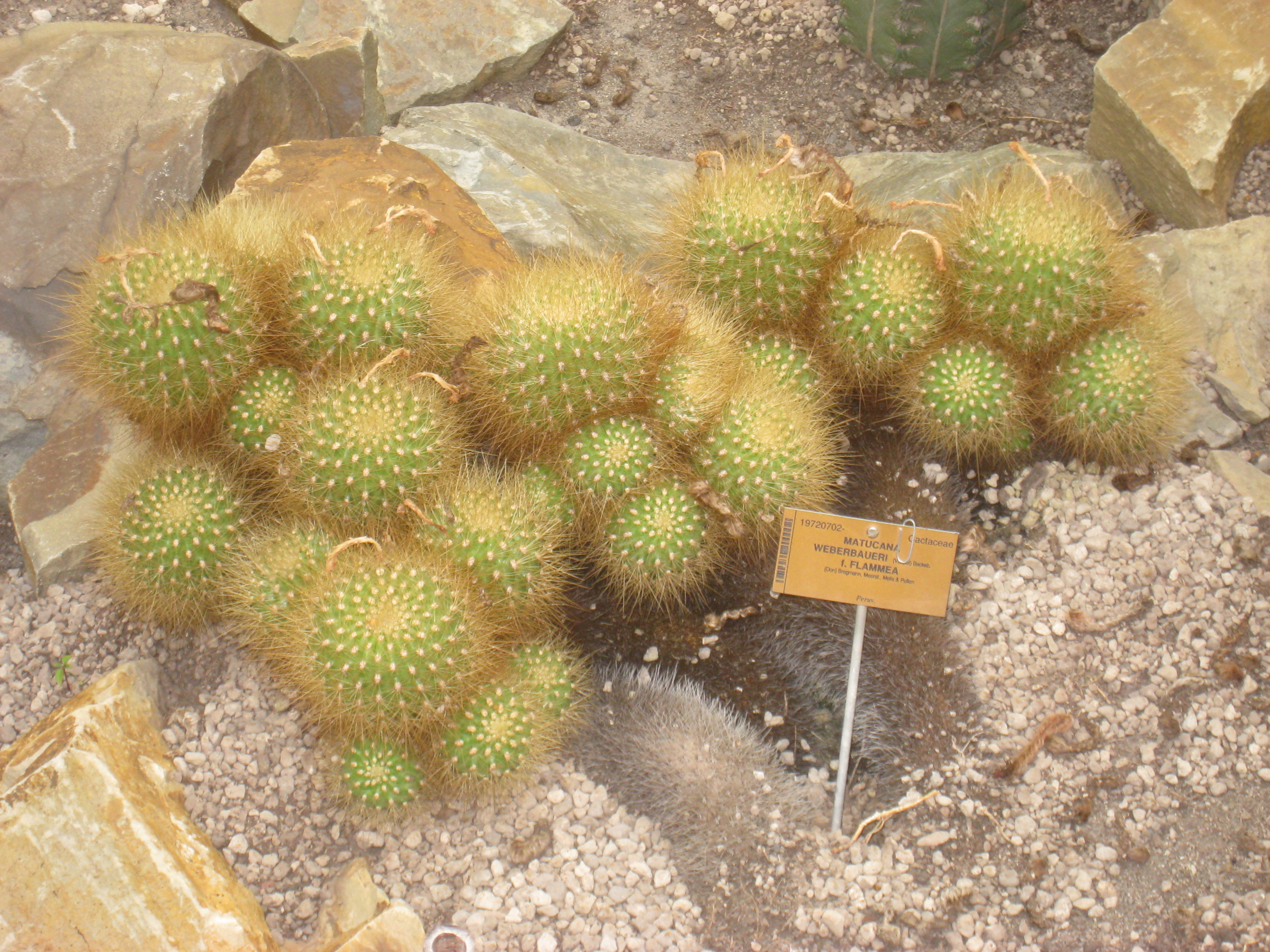 Matucana weberbaueri specimen in the National Botanic Garden of Belgium, Meise, just north of Brussels, Belgium.